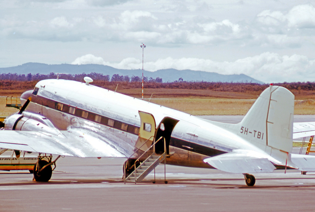 Douglas C-47B Dakota 5H-TBI owned by Williamson Diamonds at Nairobi Embakasi airport in 1973